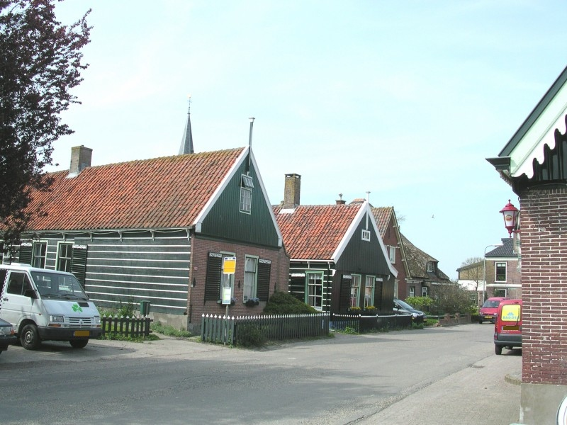 Typerende huizen in Wijdenes. Typical West Frisian houses in the village of Wijdenes